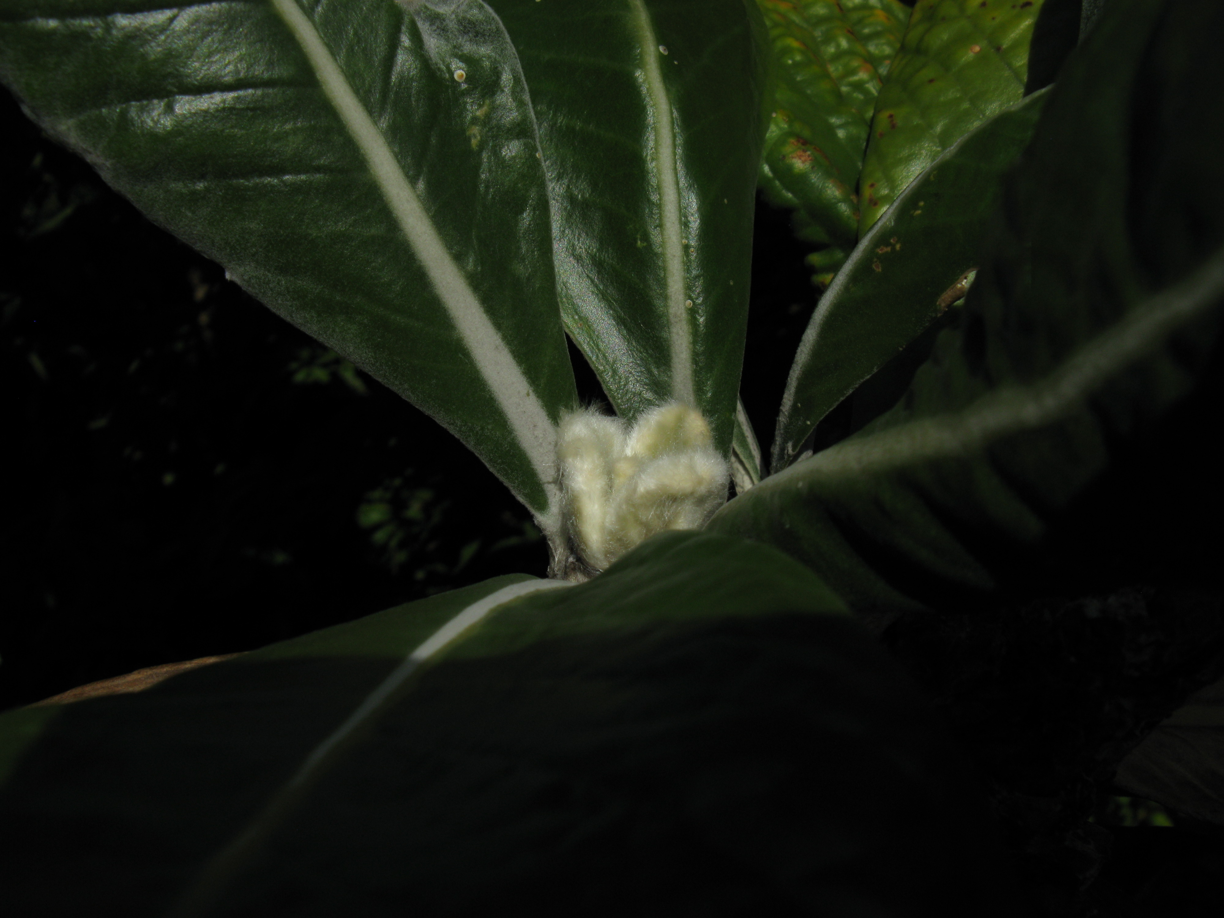 Oldenburgia grandis; the emerging bud is thickly felted with white hair that wears off as the leaf grows, leaving large loquat-like leaves with residual felting on their undersides.